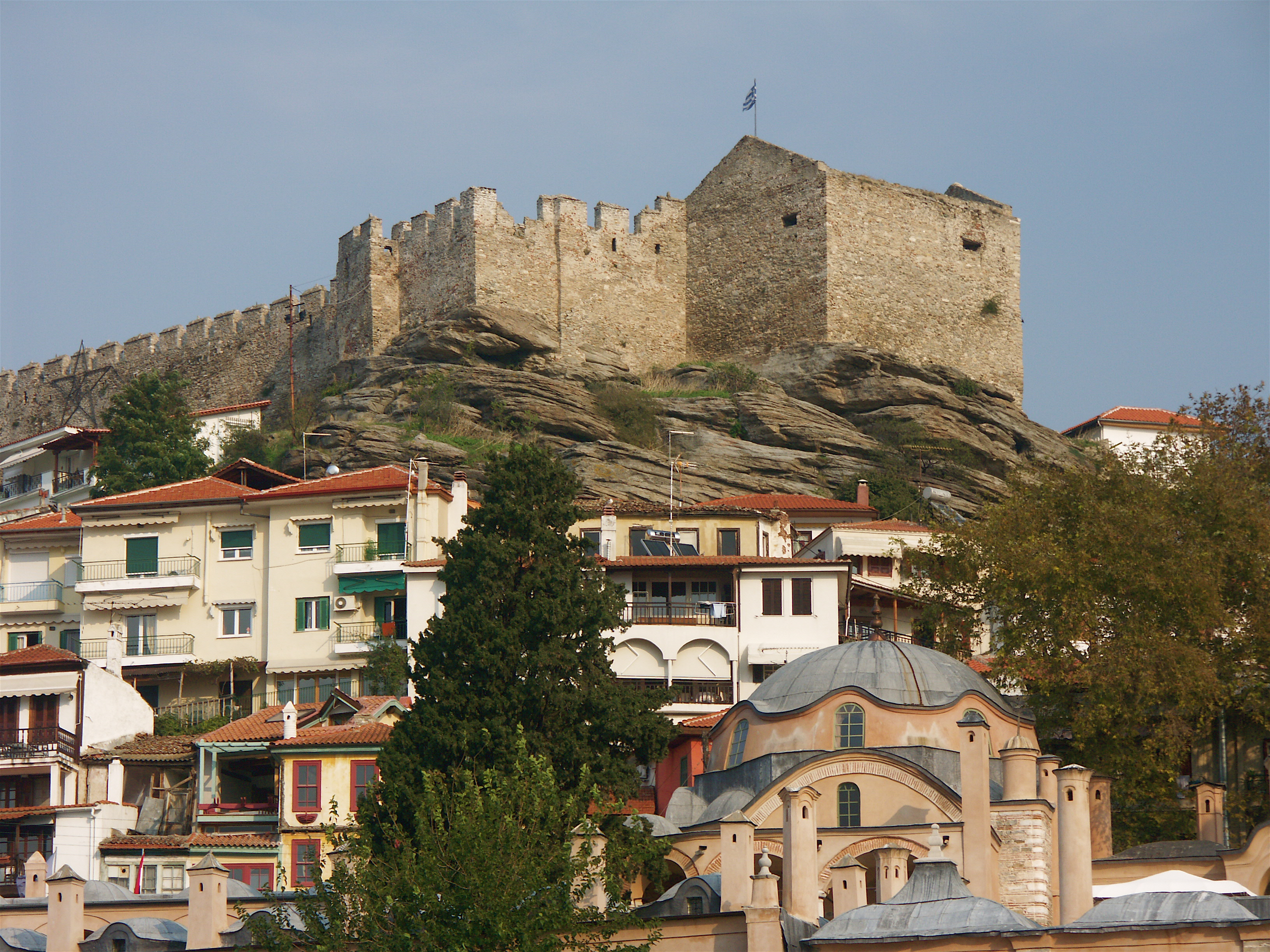 Acropolis of Kavala, GreeceAcropolis of Kavala